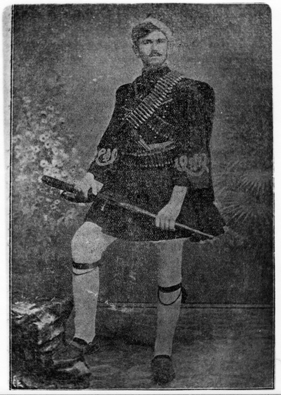 Portrait of Georgios Kirou from Olishta